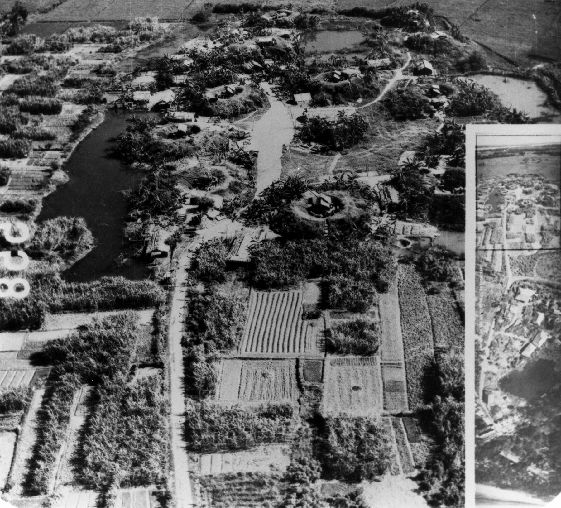 U.S. Air Force photos of a North Vietnamese anti-aircraft battery taken at low altitude by a Ryan Firebee drone. The seven gun positions are marked with arrows.